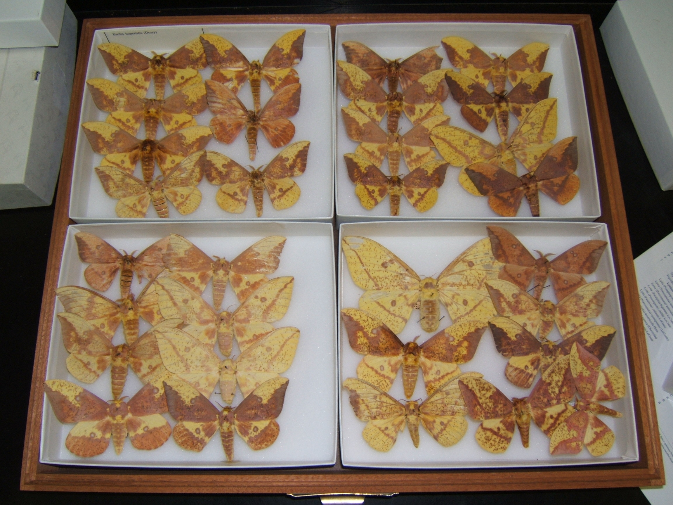 Eacles imperialis variation taken by Shawn Hanrahan at the Texas A&M University Insect Collection in College Station, Texas.